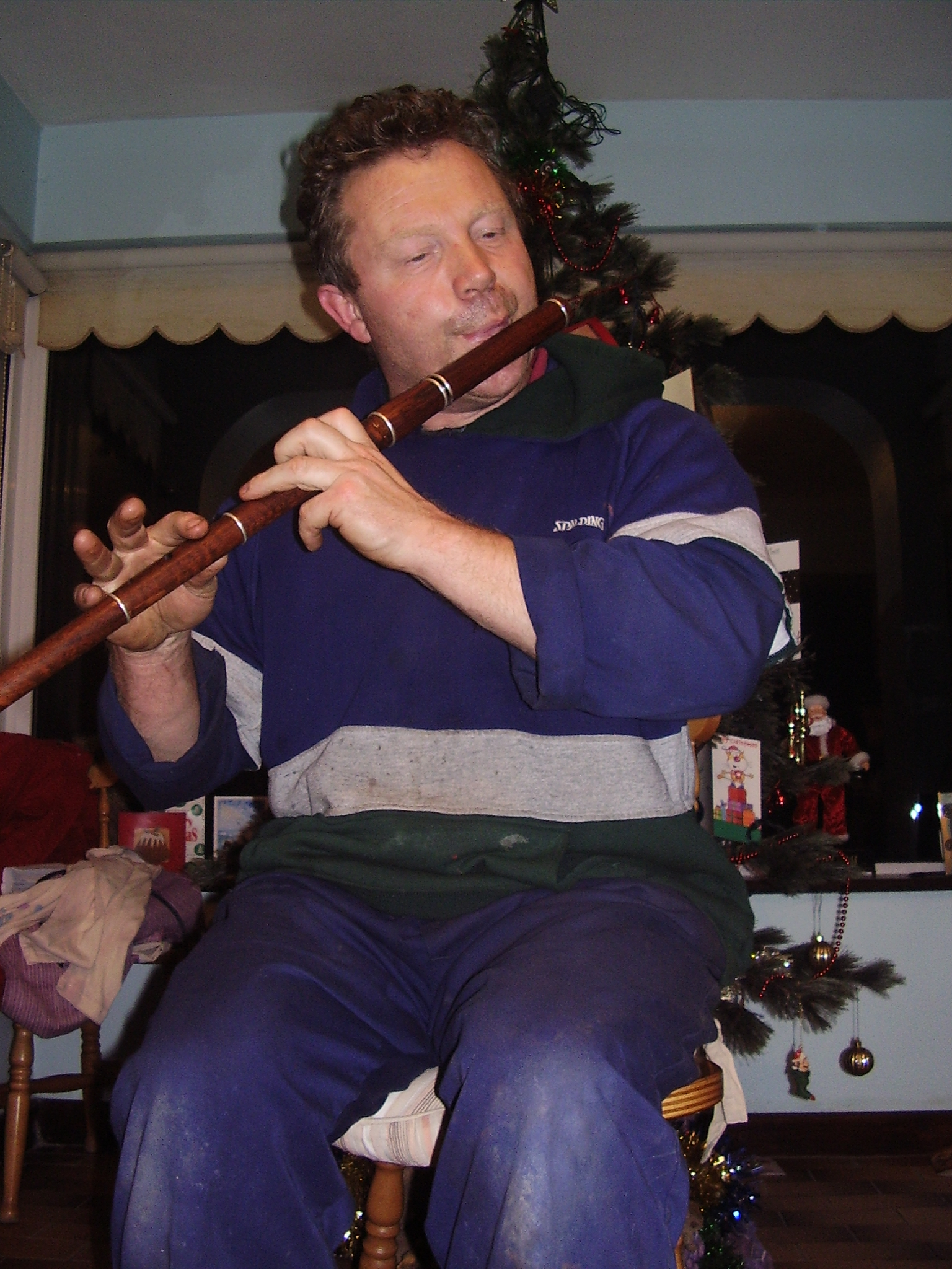 marcus hernon playing flute